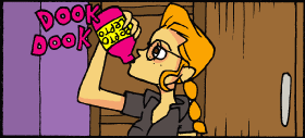 Dook dook onomatopoeic sound effect as depicted in webcomic Scary Go Round. Copyright and attribution: John Allison. This sample shows one coloured rectangular panel drawn in Ligne claire style and with coloured onomatopoeic text without balloons depicting a sound effect.